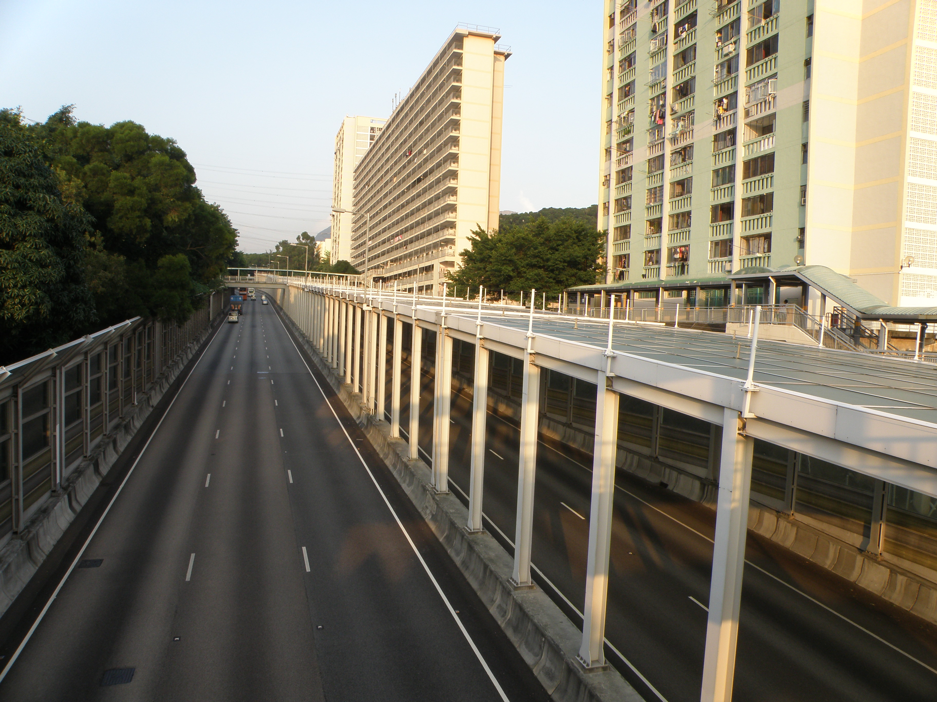 Cheung Pei Shan Road near Cheung Shan Estate, Tsuen Wan, Hong Kong.